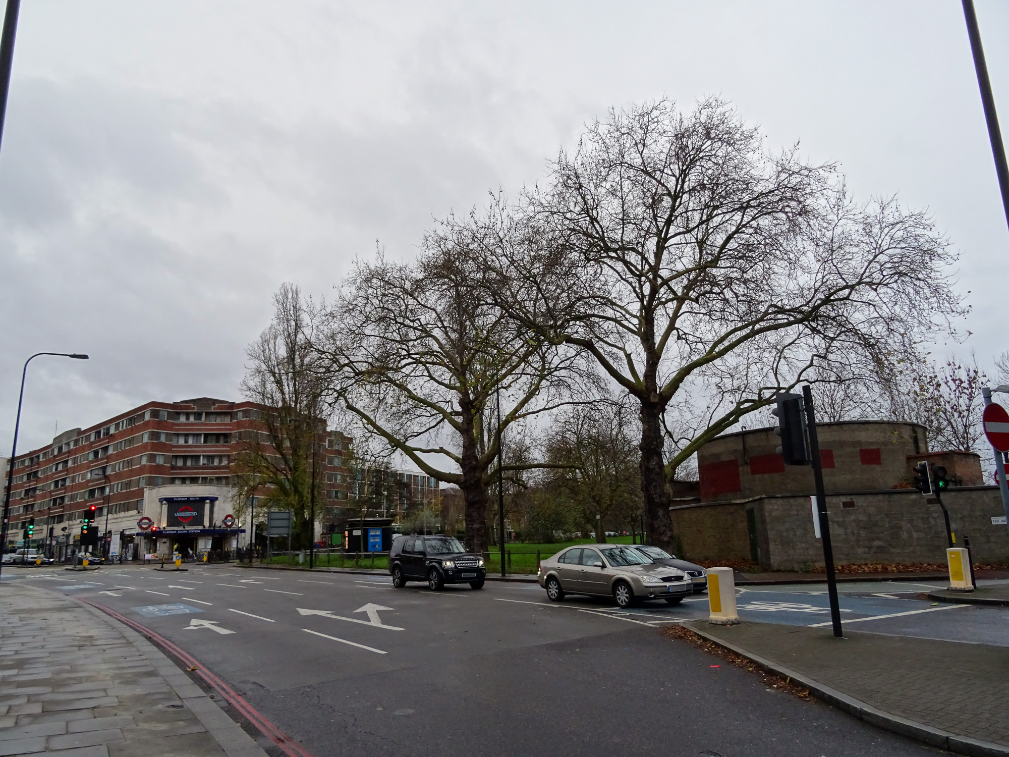 Clapham South Underground Station with deep level shelter in the foreground